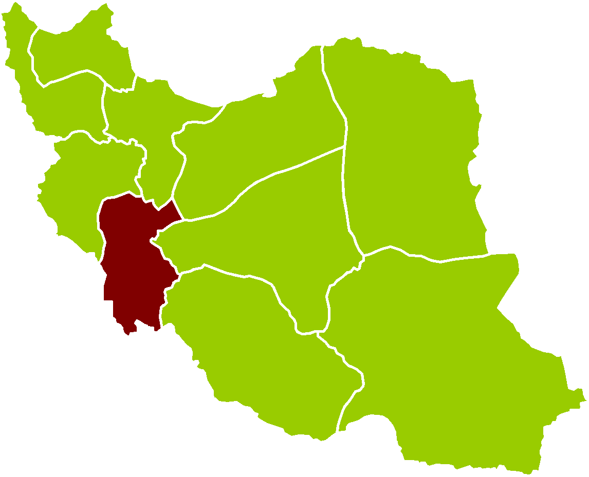 Sixth province of Iran